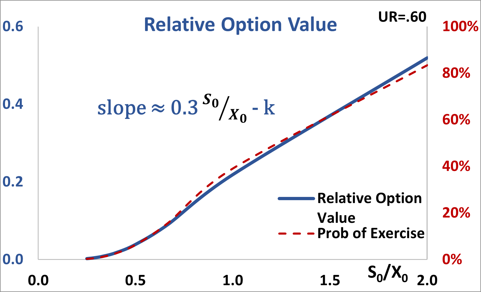 Relative Option Value Graphic